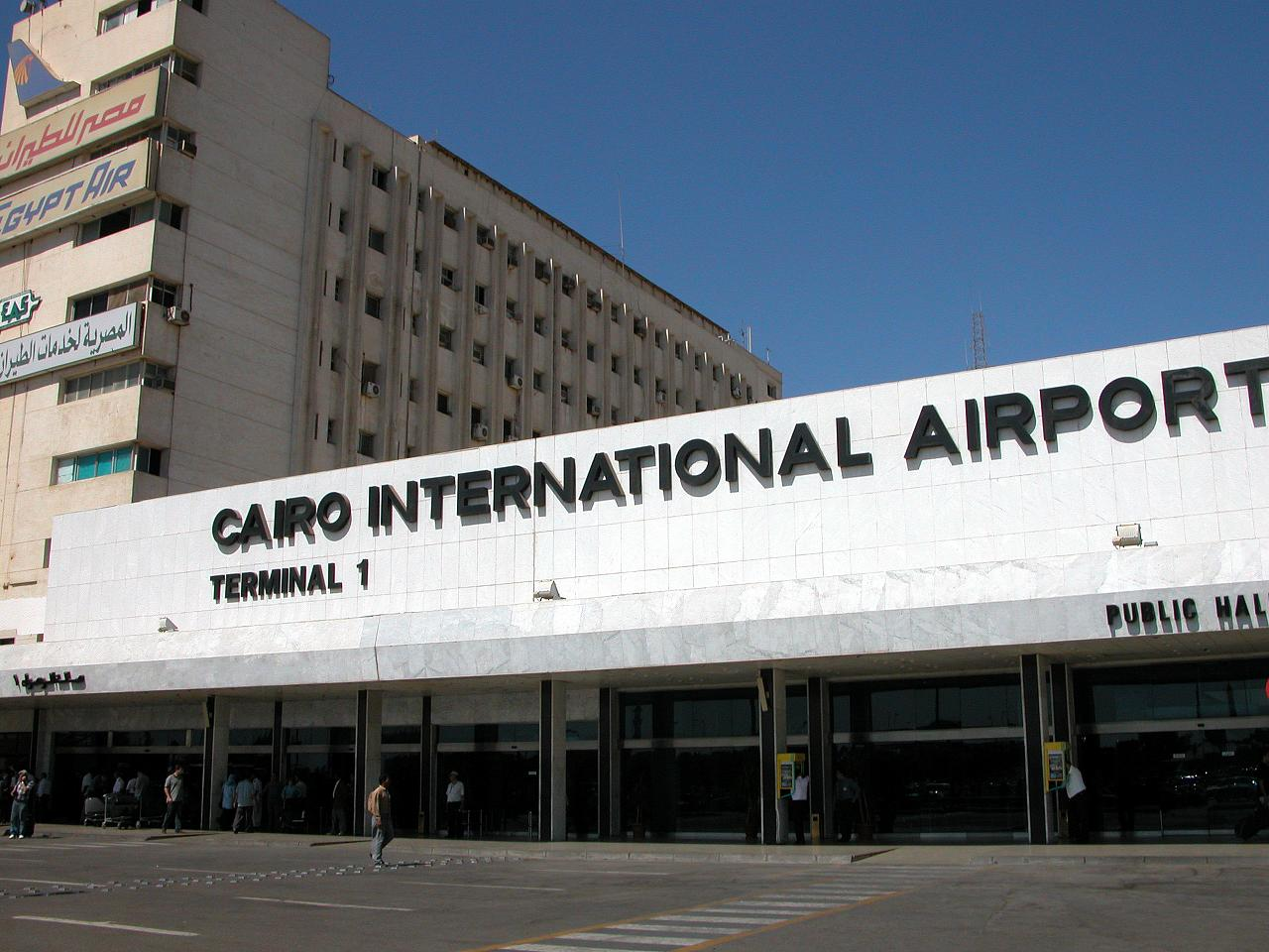 Cairo International Airport, Cairo, Egypt